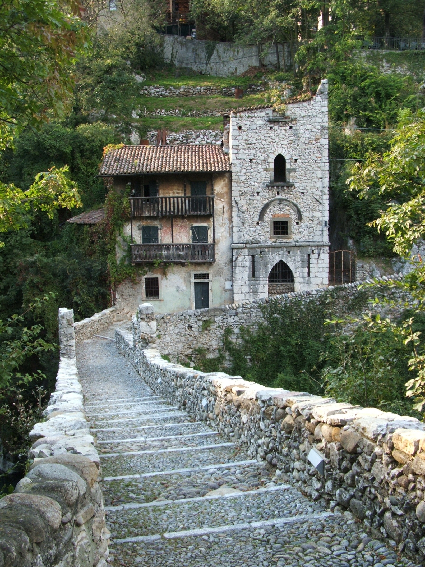 Ubiale Clanezzo, Bergamo, Italy - Attone bridge and customs house